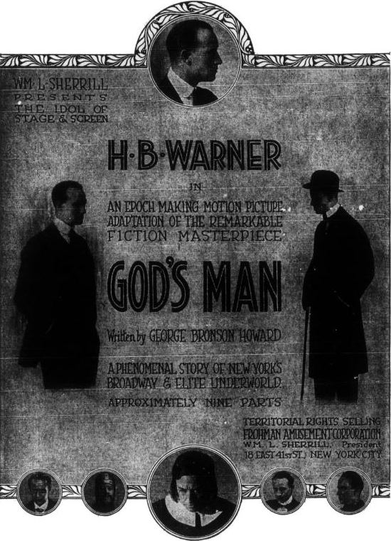 Advertisement for the American drama film God's Man (1917) with H.B. Warner, on page 22 of the April 6, 1917 Variety.